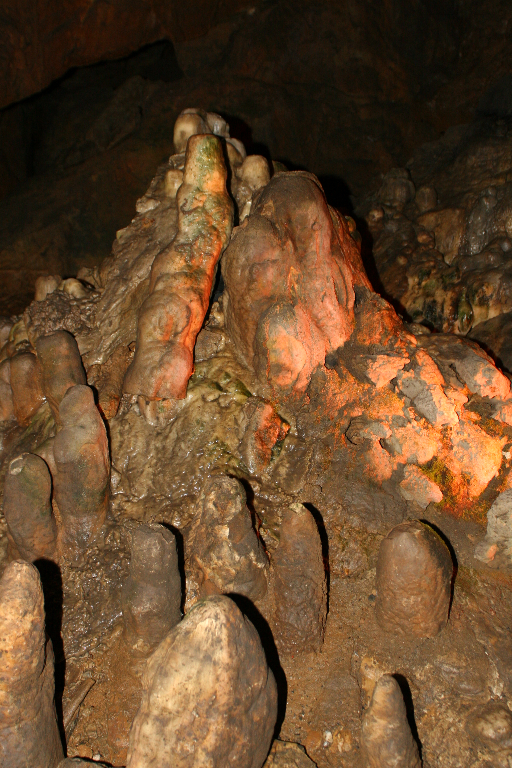 Strange formations found in Crystal Cave, Pennsylvania.